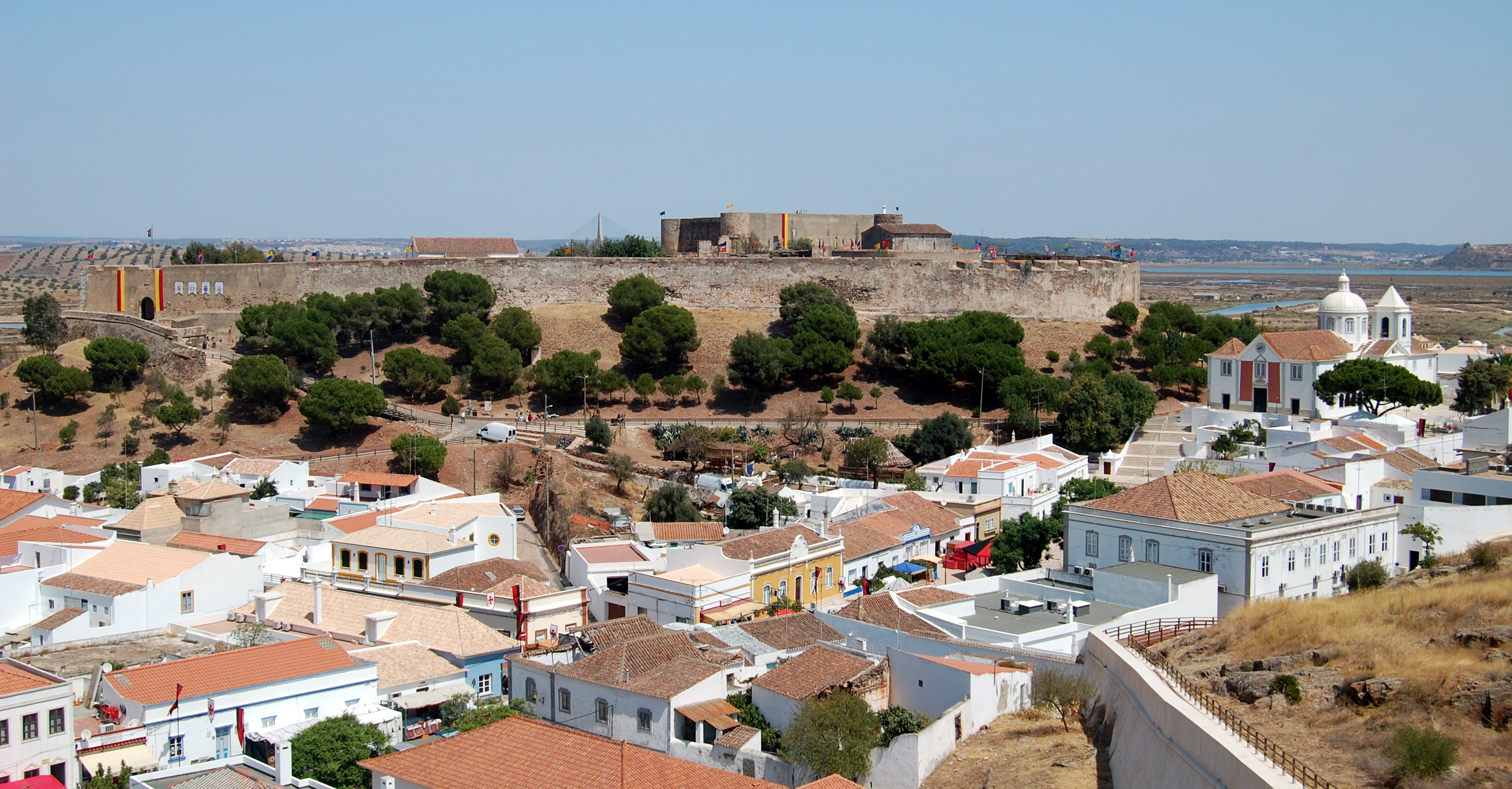 Castle of Castro Marim.